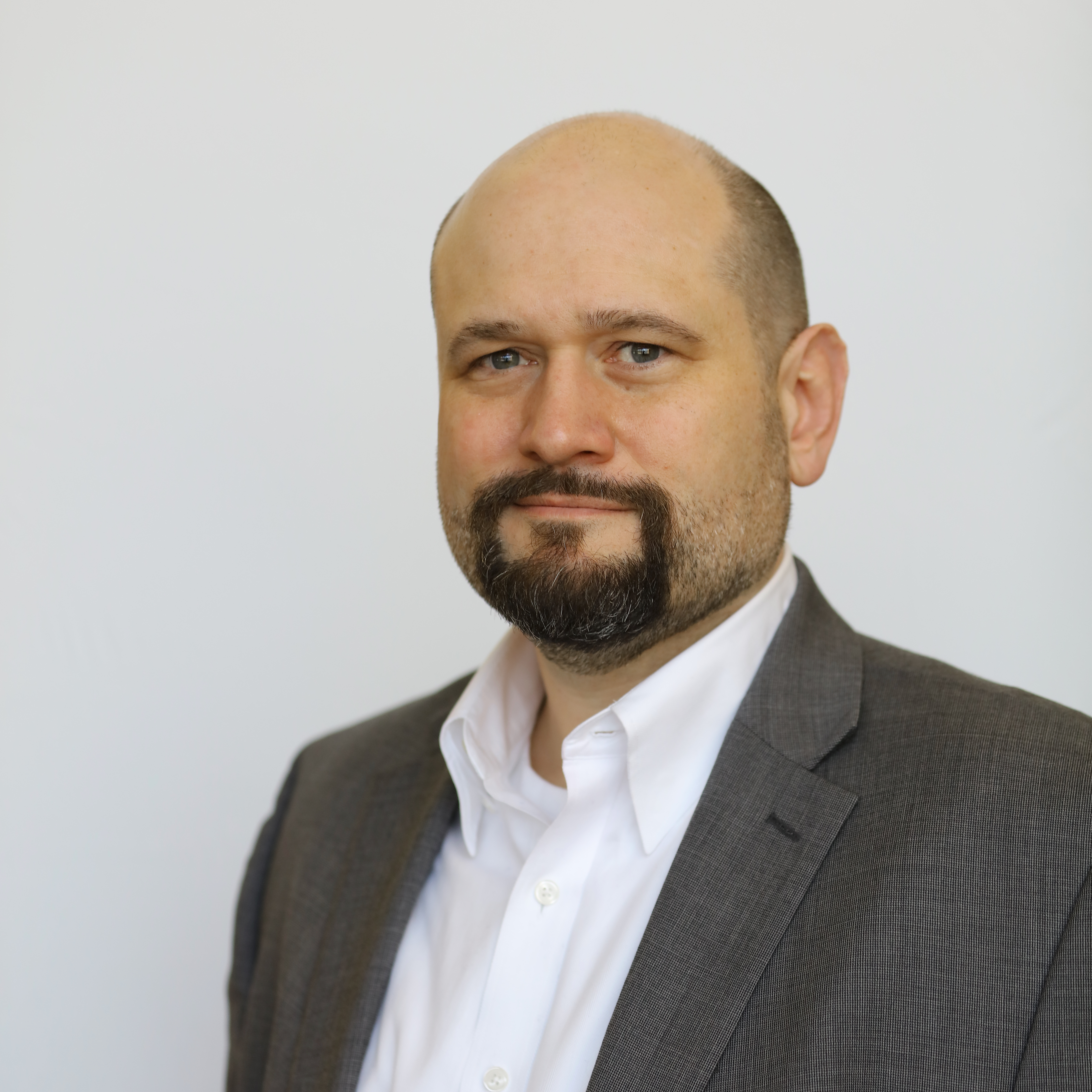 Headshot photograph of Doctor Henry "Trae" D. Winter, III. Doctor Winter is wearing a gray sports coat and open buttoned white shirt. He is a bald man in his mid-forties with a tightly trimmed, graying beard, and dark goatee.